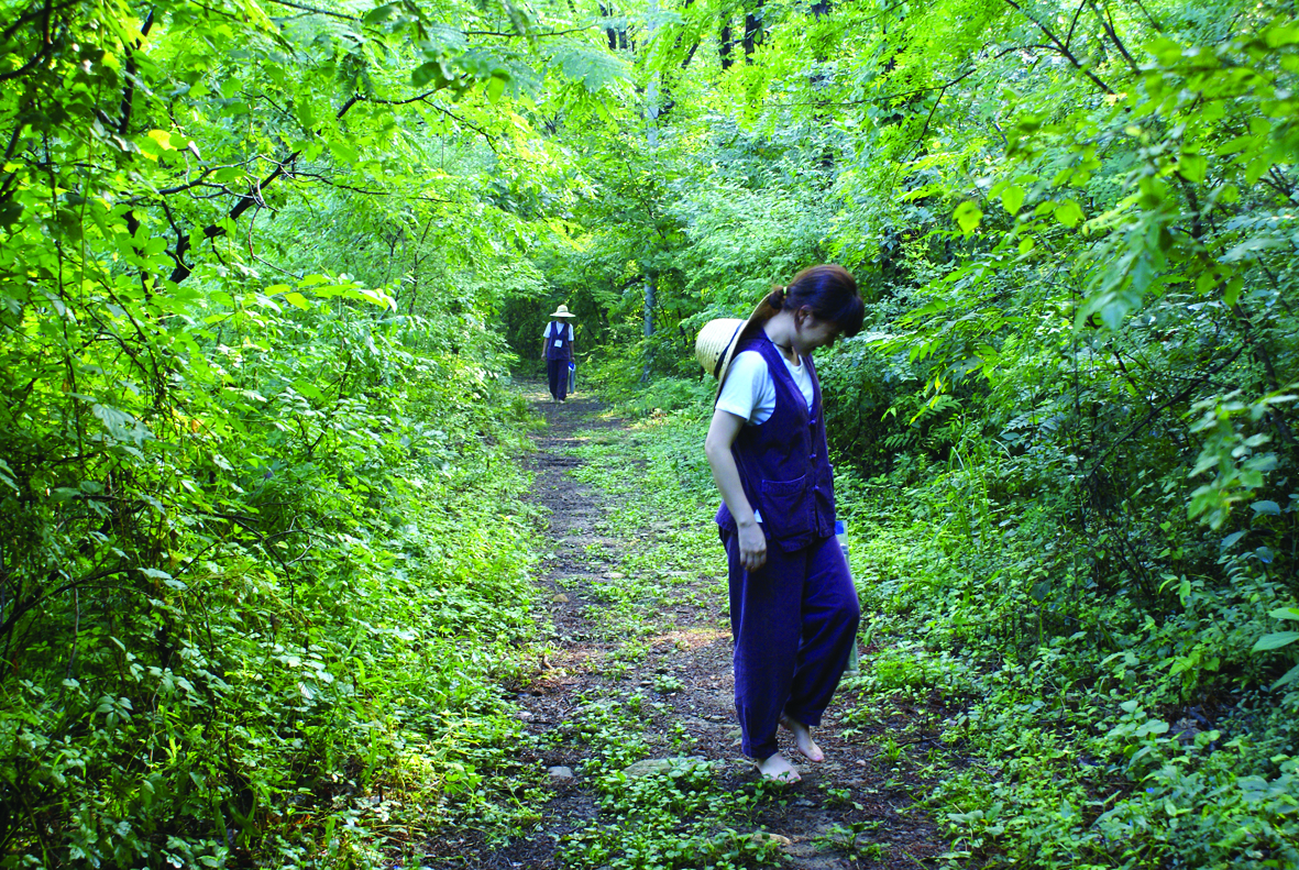 Banya temple in South Korea (Templestay)